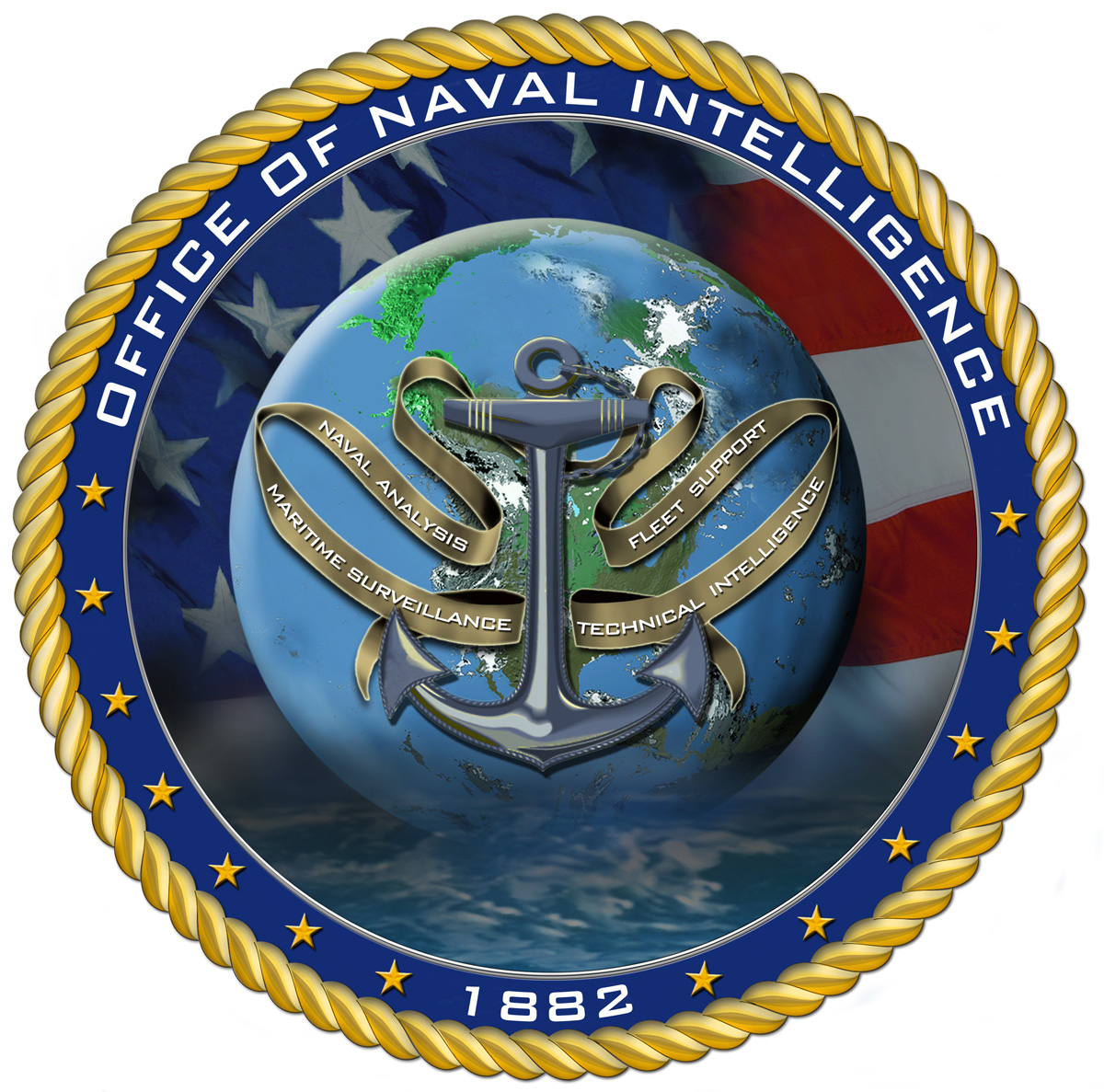 Seal of the Office of Naval Intelligence.